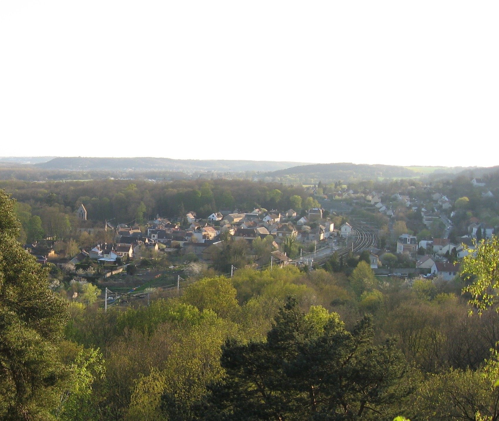 View of the french city of Chamarande (Essonne, France)